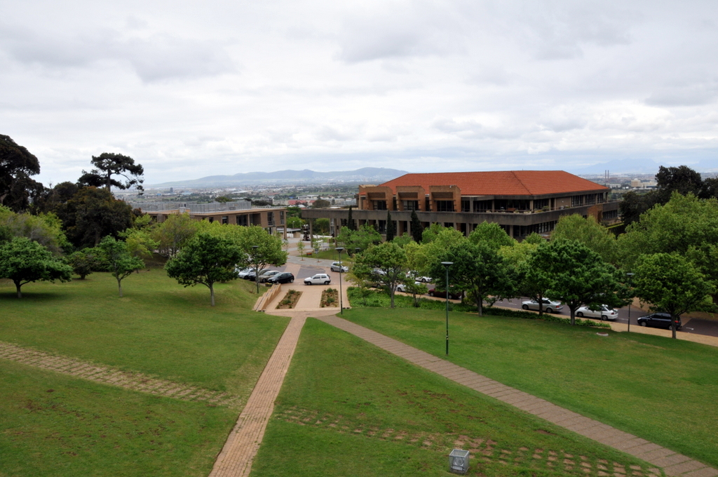 UCT Middle Campus - The Japonica Walk, which leads up to the Summer House, was by 1814 (when surveyed by Thibault) an oaklined walk and a distinctive feature of Rustenburg farm. When Cecil John Rhodes purchased the Groote Schuur estate, he made parts of it freely accessible to the public, and this area was a popular picnic spot. The development of the Middle Campus in the 1980s led to fears among the Cape Town public that the University would deny public access to Japonica Walk, but this was not the case. In 1982 new japonicas, specially developed for South African conditions, were planted to replace those that had died over the previous 90 years. This media shows a South African Protected Site with SAHRA file reference 9/2/111/0057.